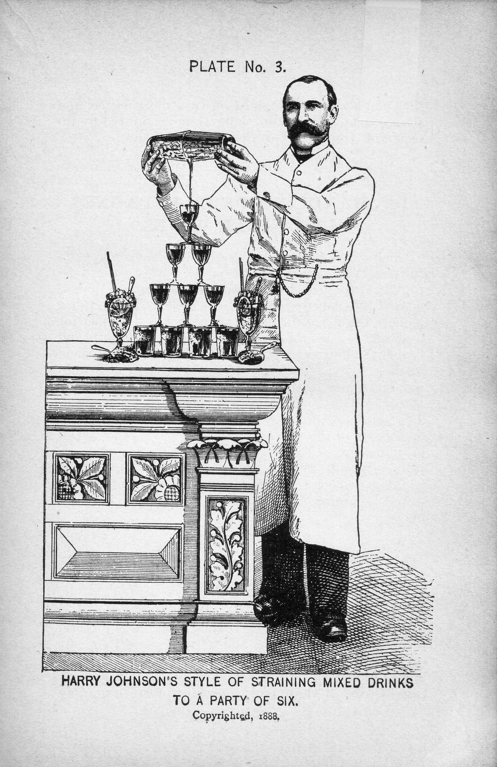 Harry Johnson's style of straining mixed drinks to a party of six.